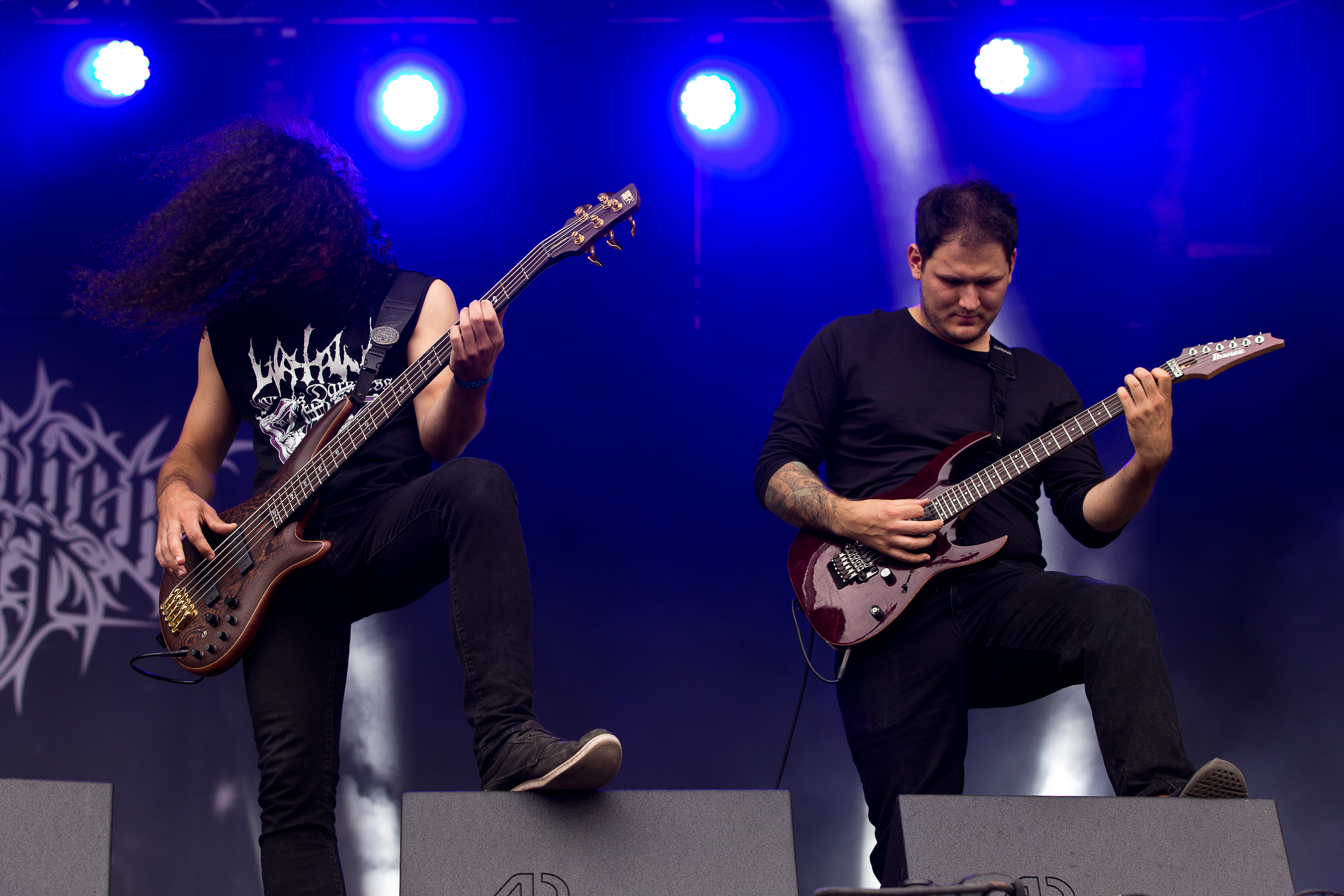 The German extreme metal band Der Weg einer Freiheit at the Rockharz Open Air 2016 in Ballenstedt/Germany.